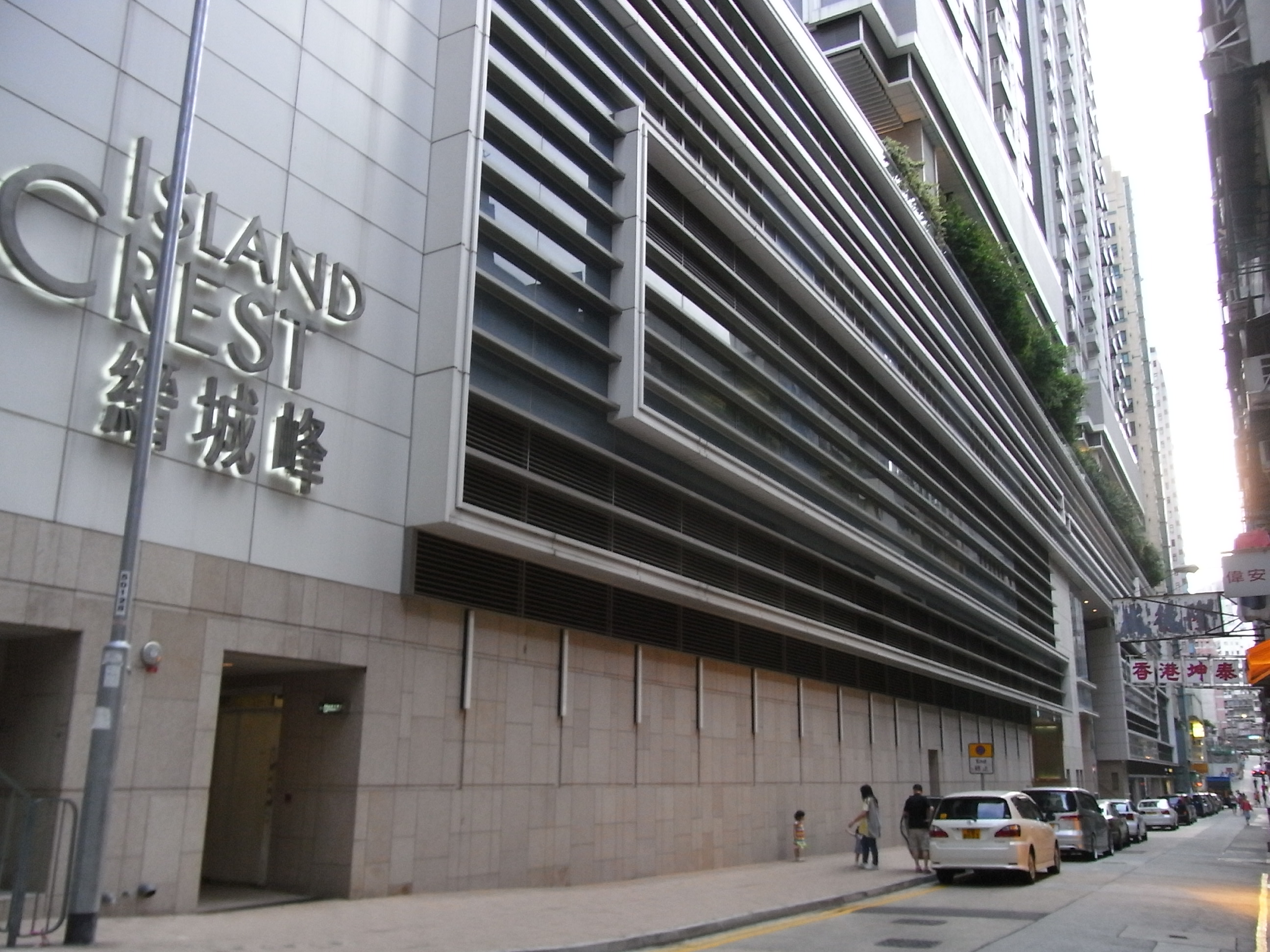 Sai Ying Pun, Hong Kong